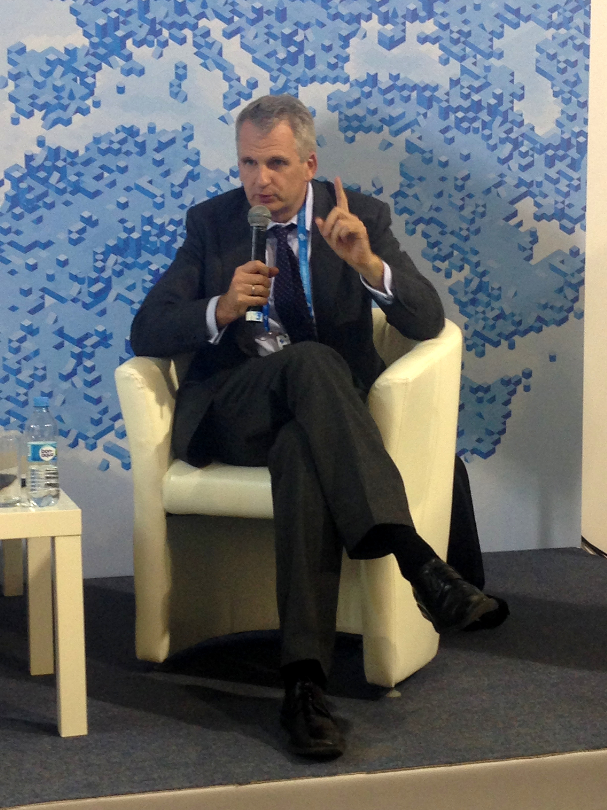 Timothy Snyder at Yalta European Strategy 2014